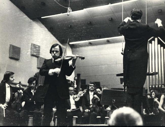 1973 Ankara - Turkey with Presidential Symphony Orchestra (dir. Jean PERISSON) Tunç Ünver playing.